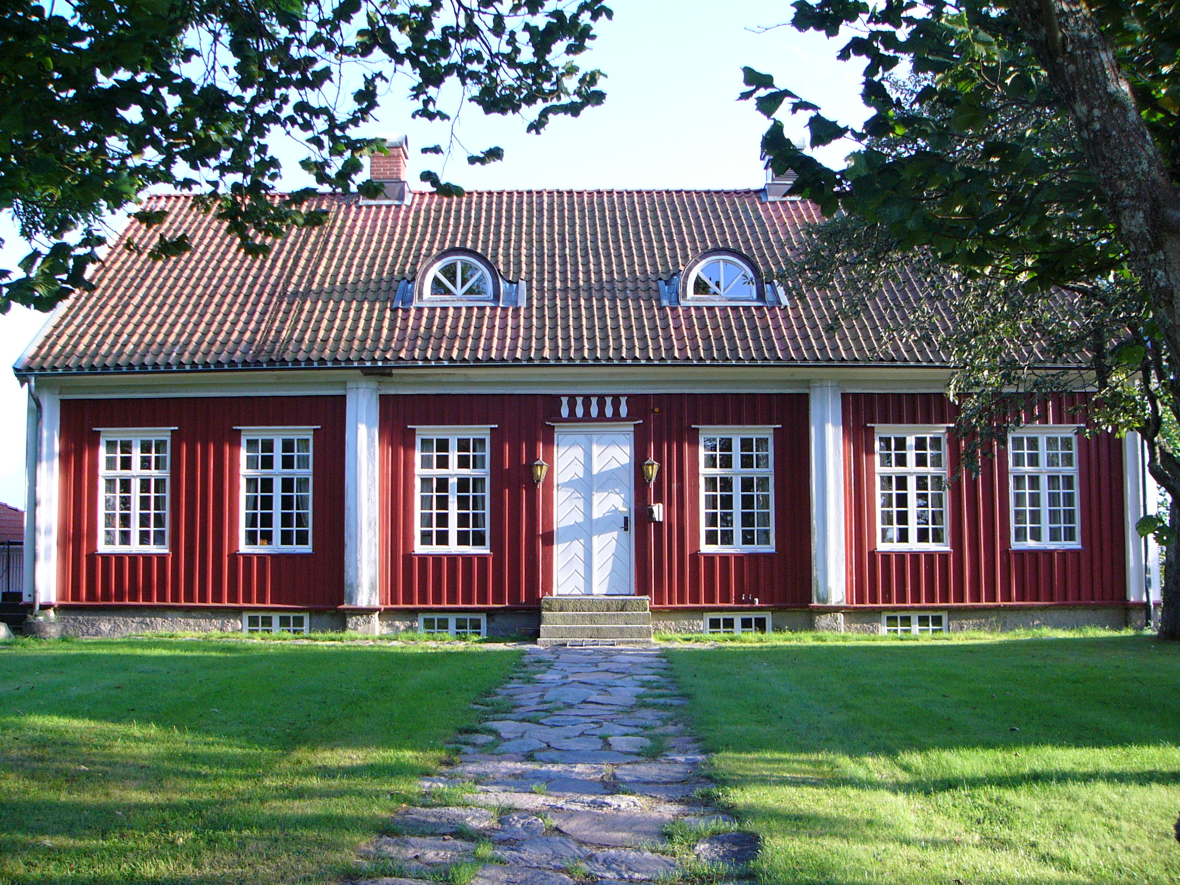 The old courthouse in Tanumshede, Västra Götaland, Sweden.